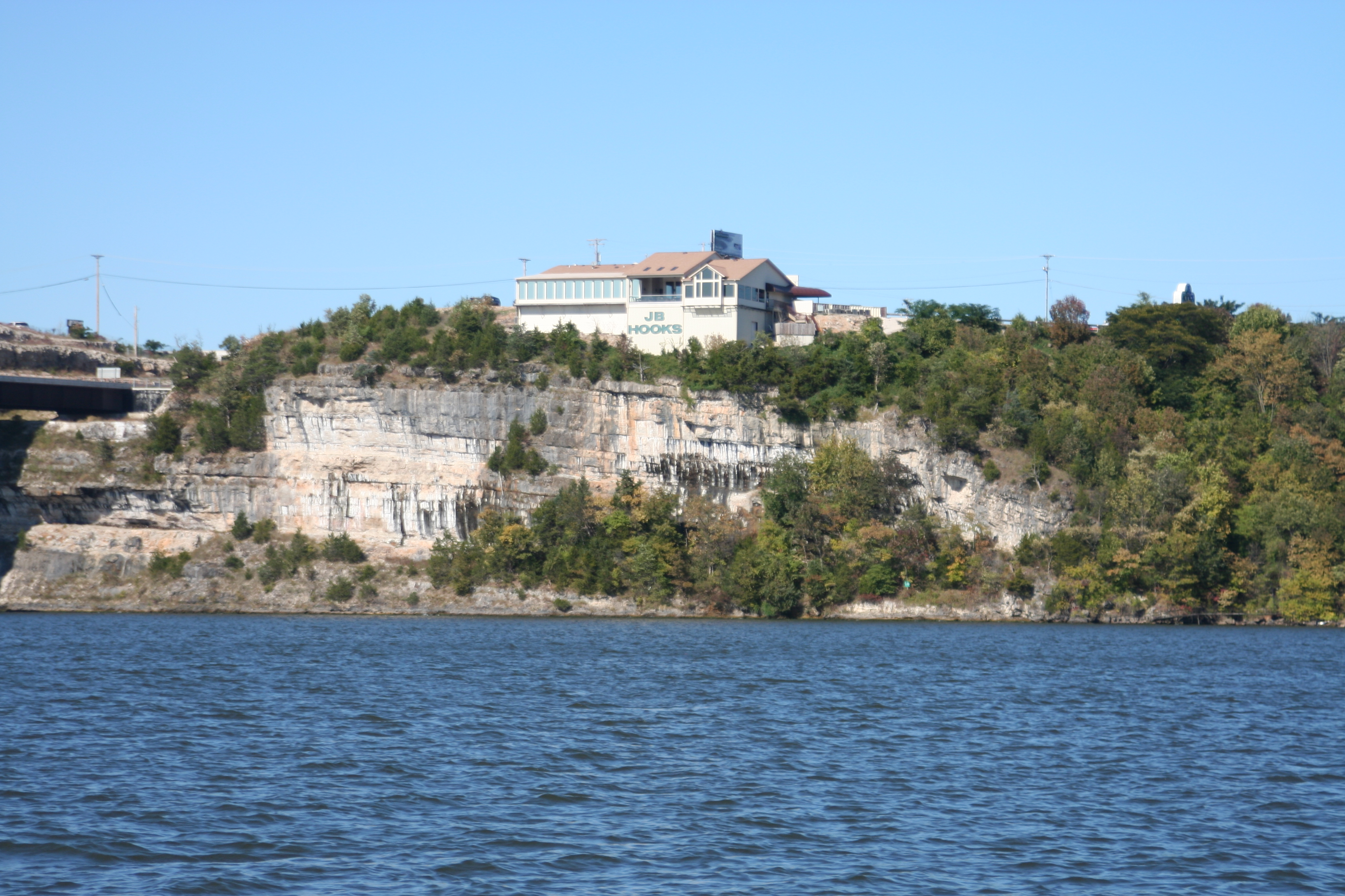 JB Hooks at Lake Ozark, Camden County, Missouri, USA. Mile Marker=?